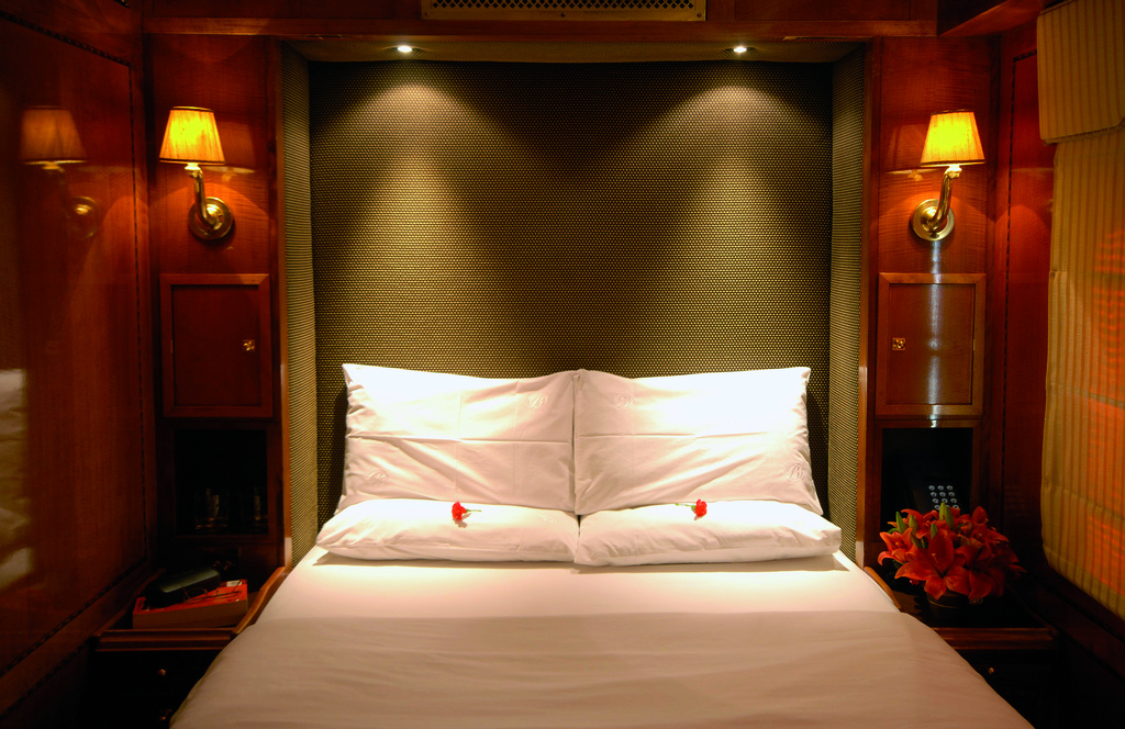 bedroom at the Blue Train